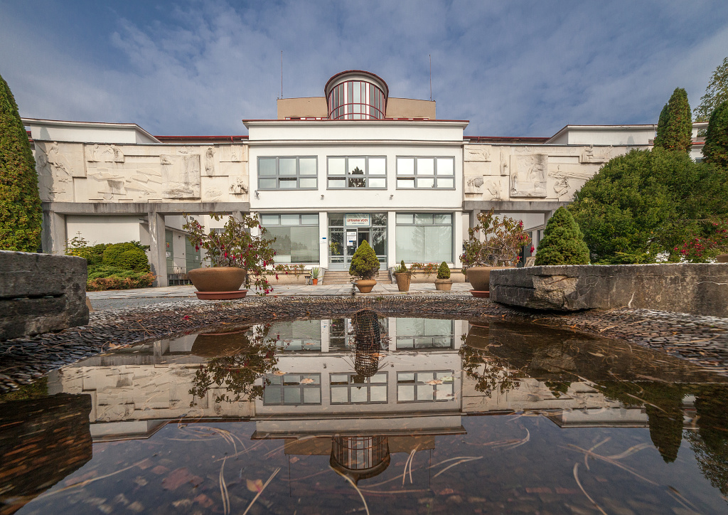 Úpravna vody v Podhradí u Vítkova provozovaná společností SmVaK Ostrava, a.s.